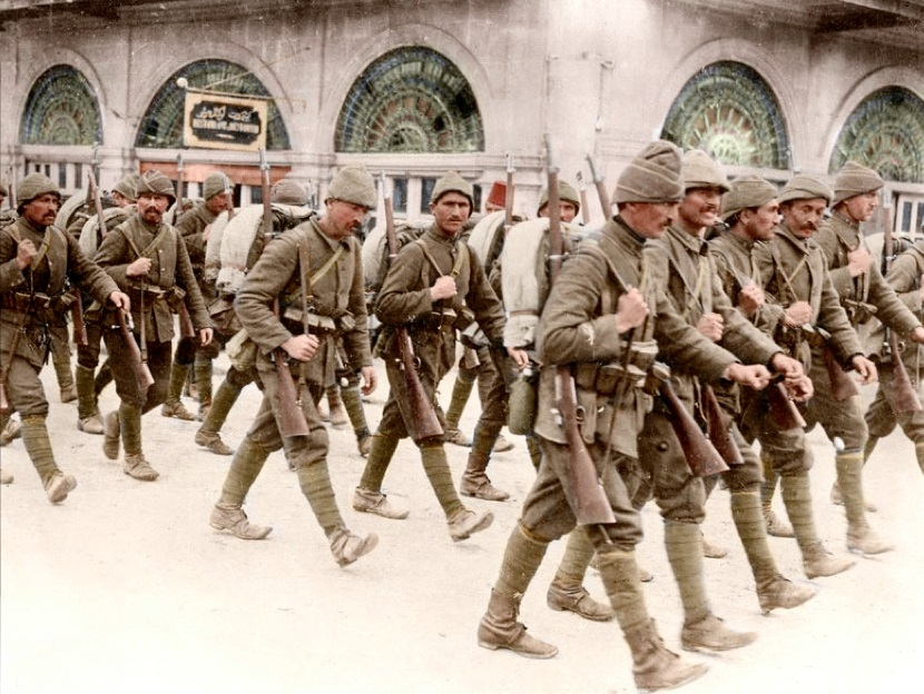 Photograph by Tropical Press Agency "WELL EQUIPPED AND TRAINED TURKISH INFANTRY MARCHING THROUGH ALEPPO". The photo was taken at the break of WW1, and titled: "THE KAISER RESERVE OF MAN POWER". The Ottoman Empire joined Germany and the Austro-Hungarian Empire (Central Power) during WW1.